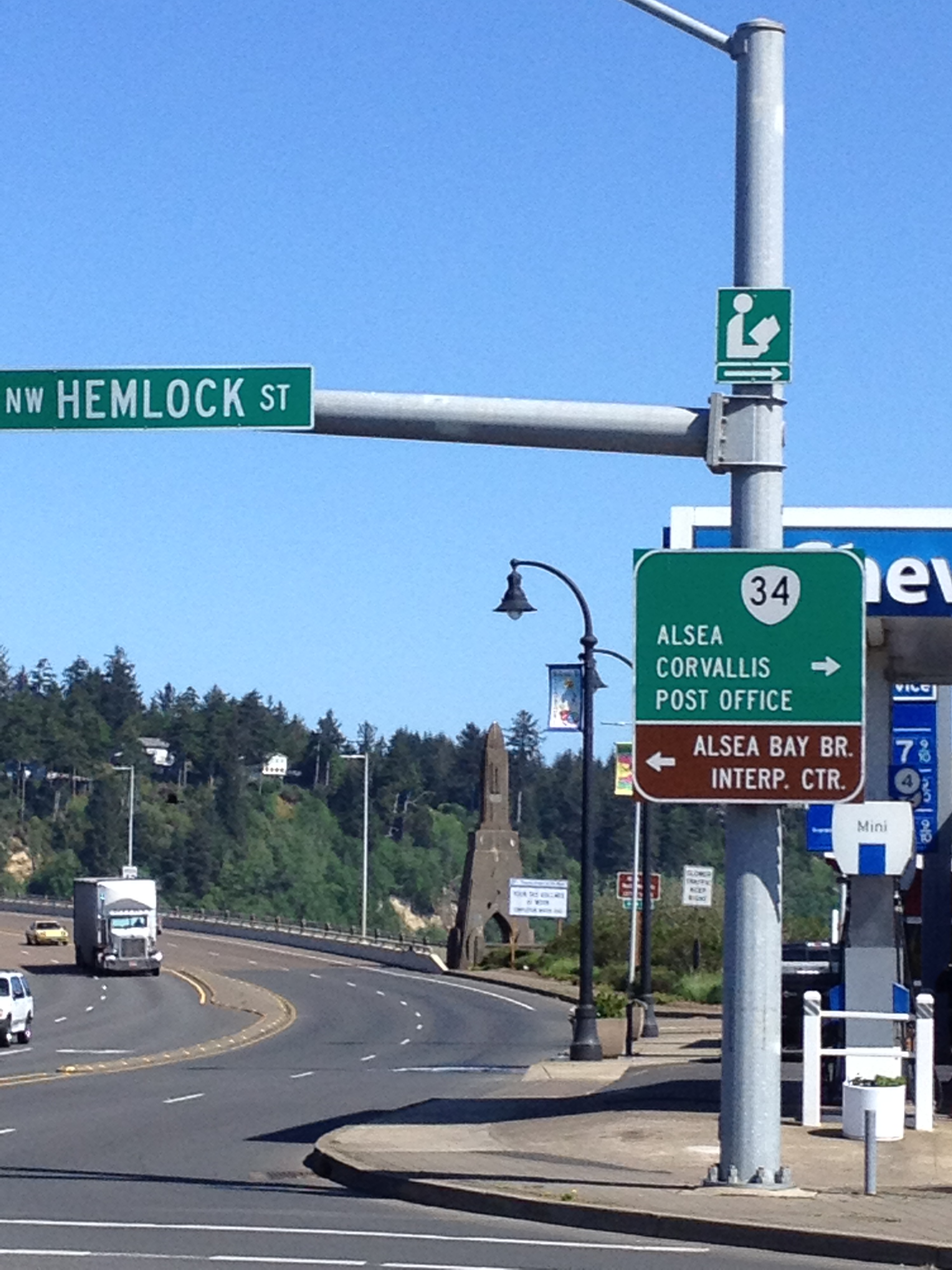 This is where Oregon 34 starts in Waldport.